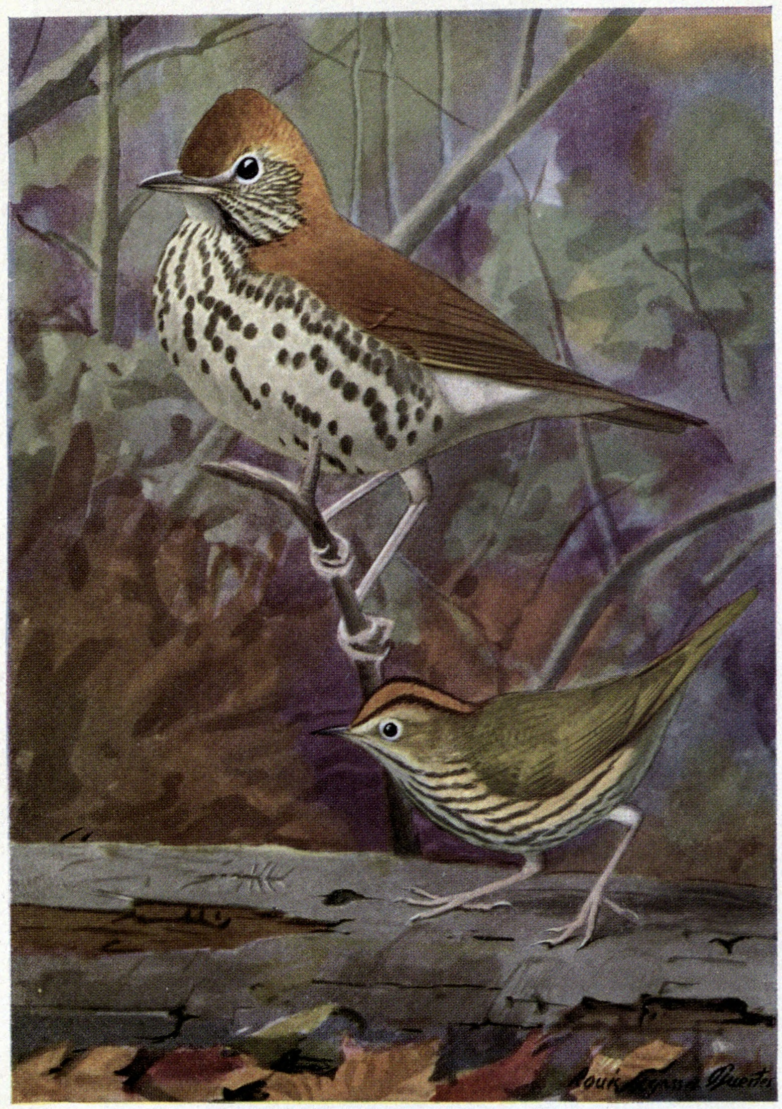 Illustration by Louis Agassiz Fuertes of a Wood Thrush (Hylocichla mustelina) and an Ovenbird (Seiurus aurocapillus) from The Burgess Bird Book for Children